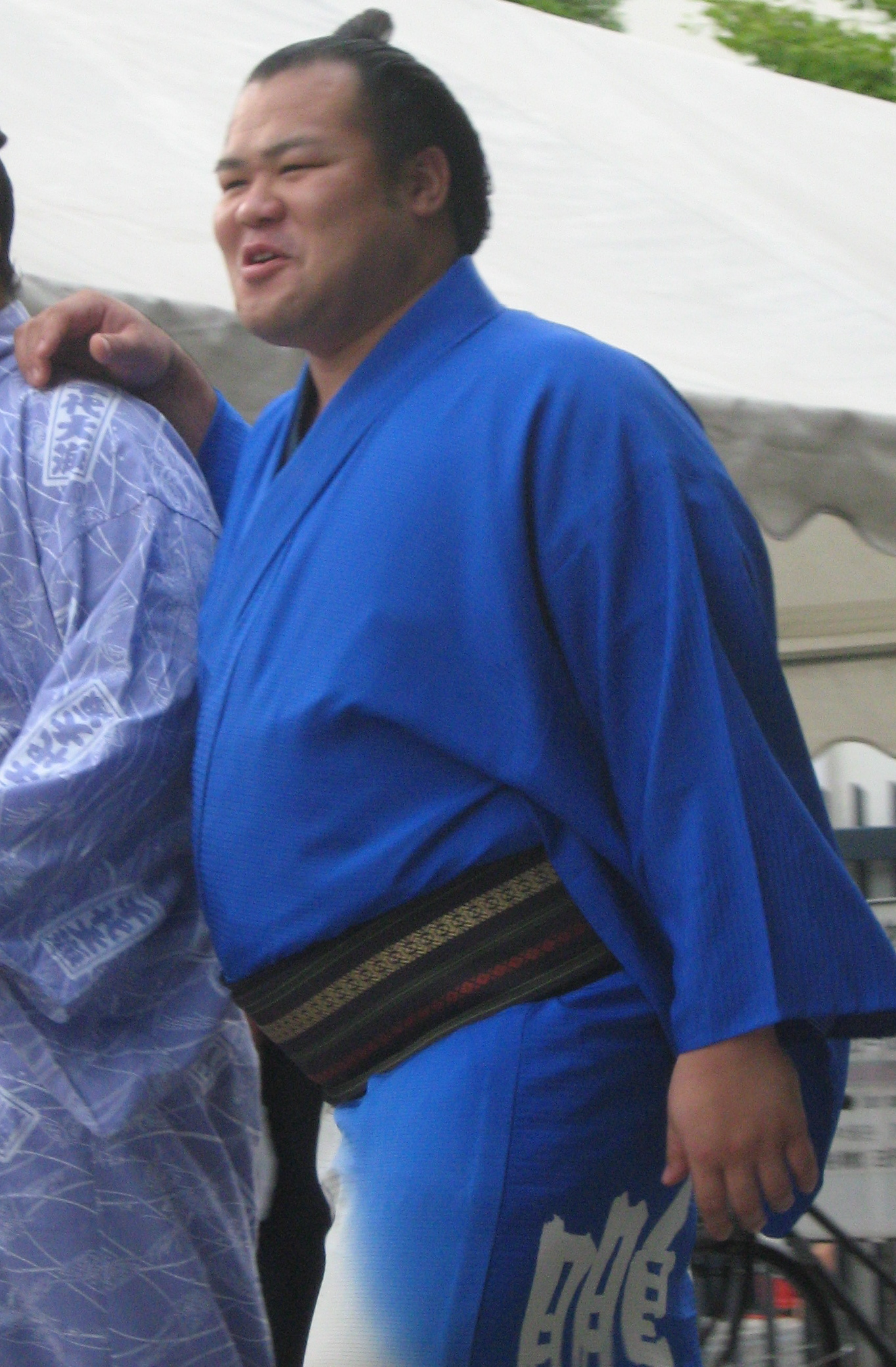 Photo taken at 2008 tournament